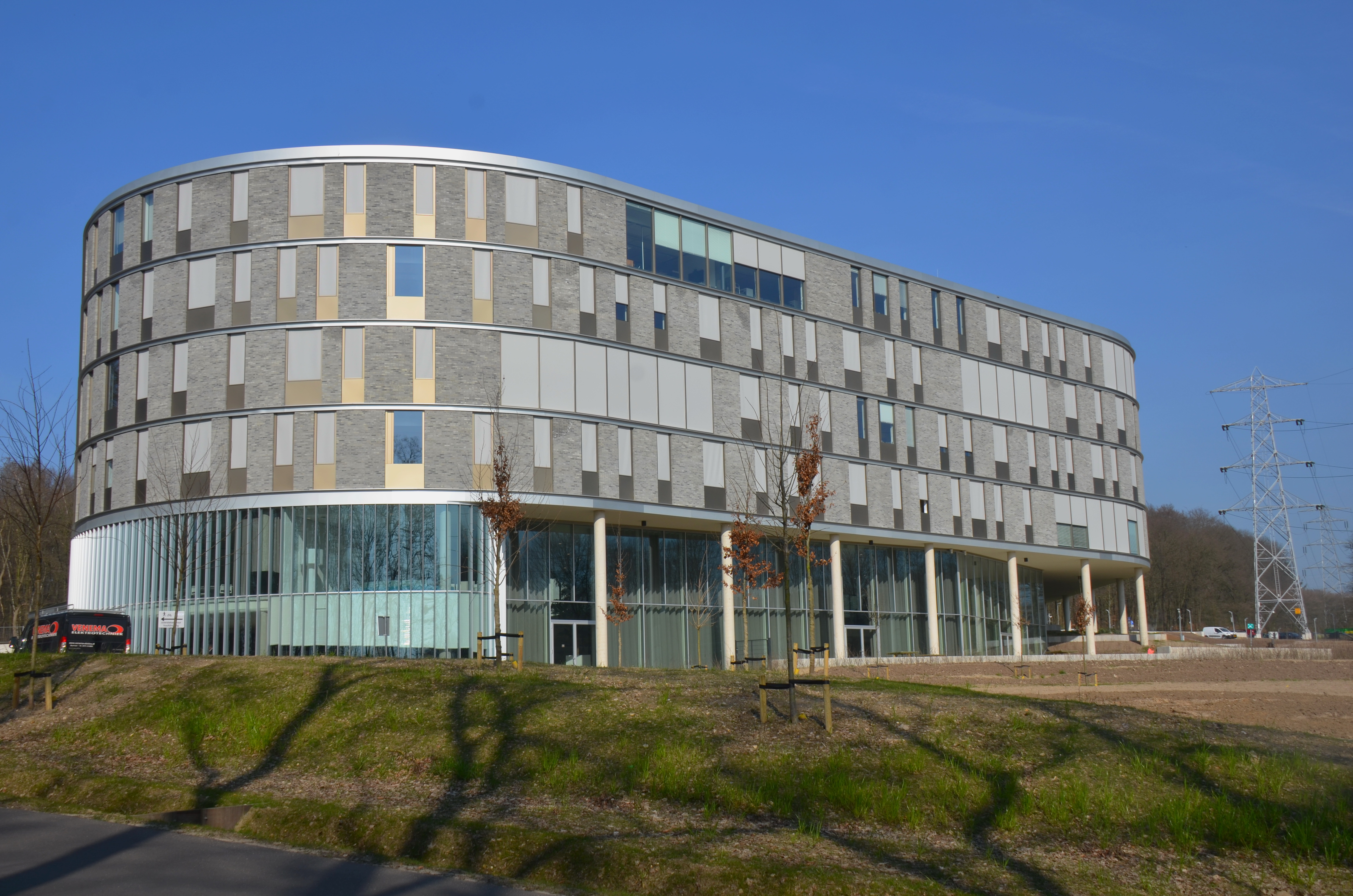 Brand new TenneT office building in Arnhem. TenneT is an electricity transport company, so it is located just beside a high voltage power mast